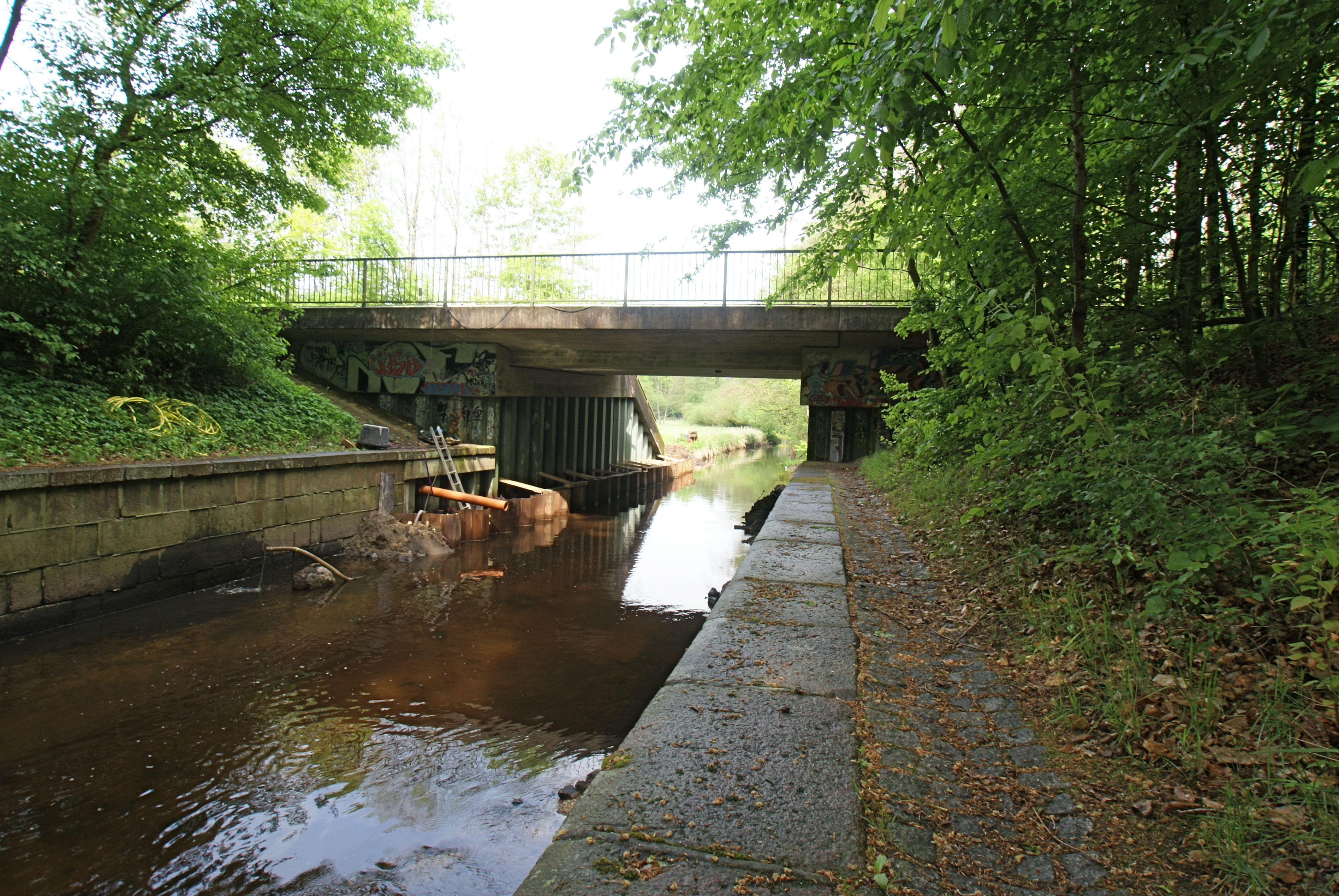 Kayhude (Germany): Bridge over the river Alster